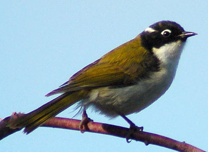 White-naped Honeyeater - Melithreptus lunatus # 3 Photographed in Frankland, Western Australia.